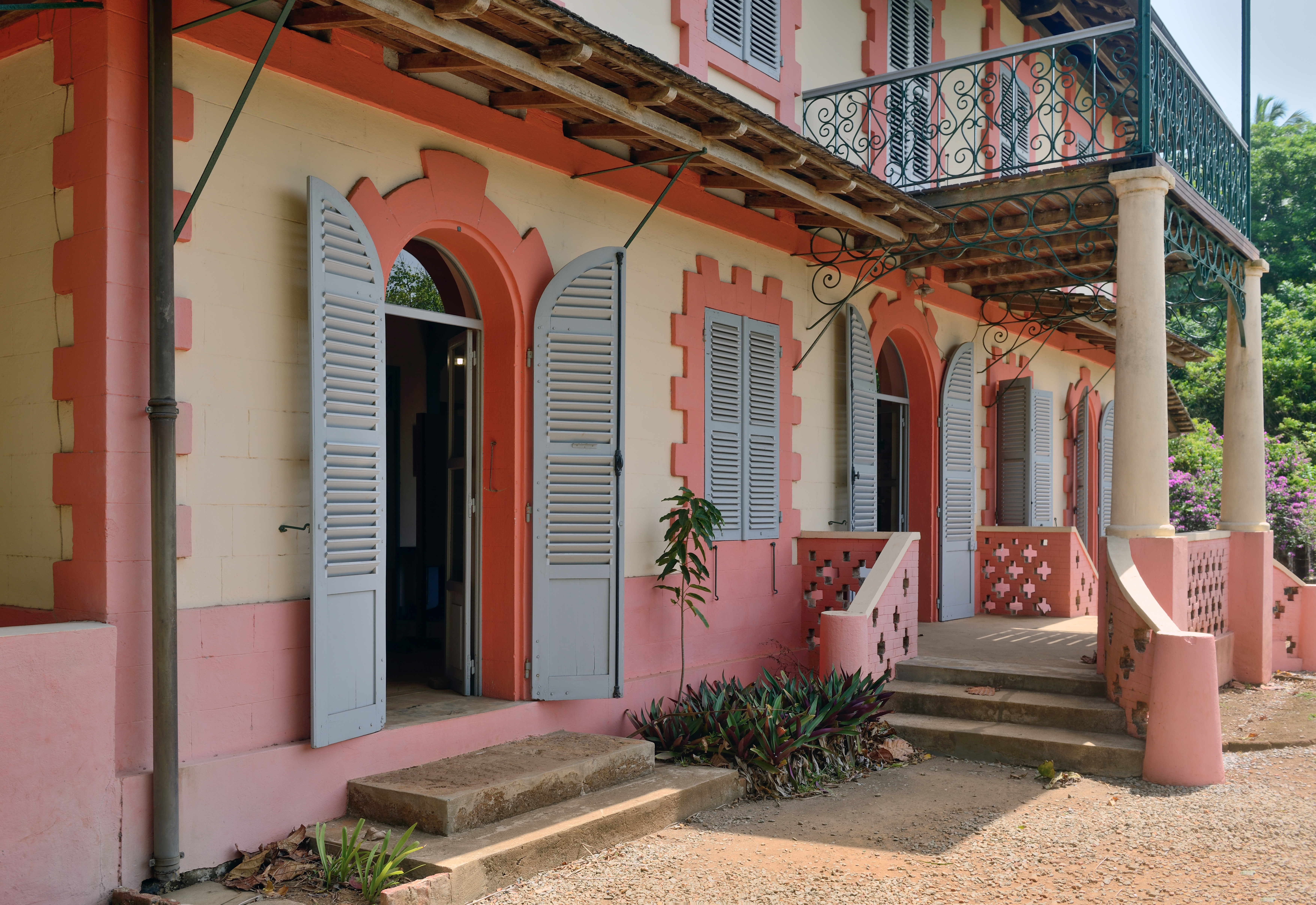 French Guiana, île Royale: museum of the convict prison. Former house of the director of the prison. The house was built around 1886, renovated in 1994.